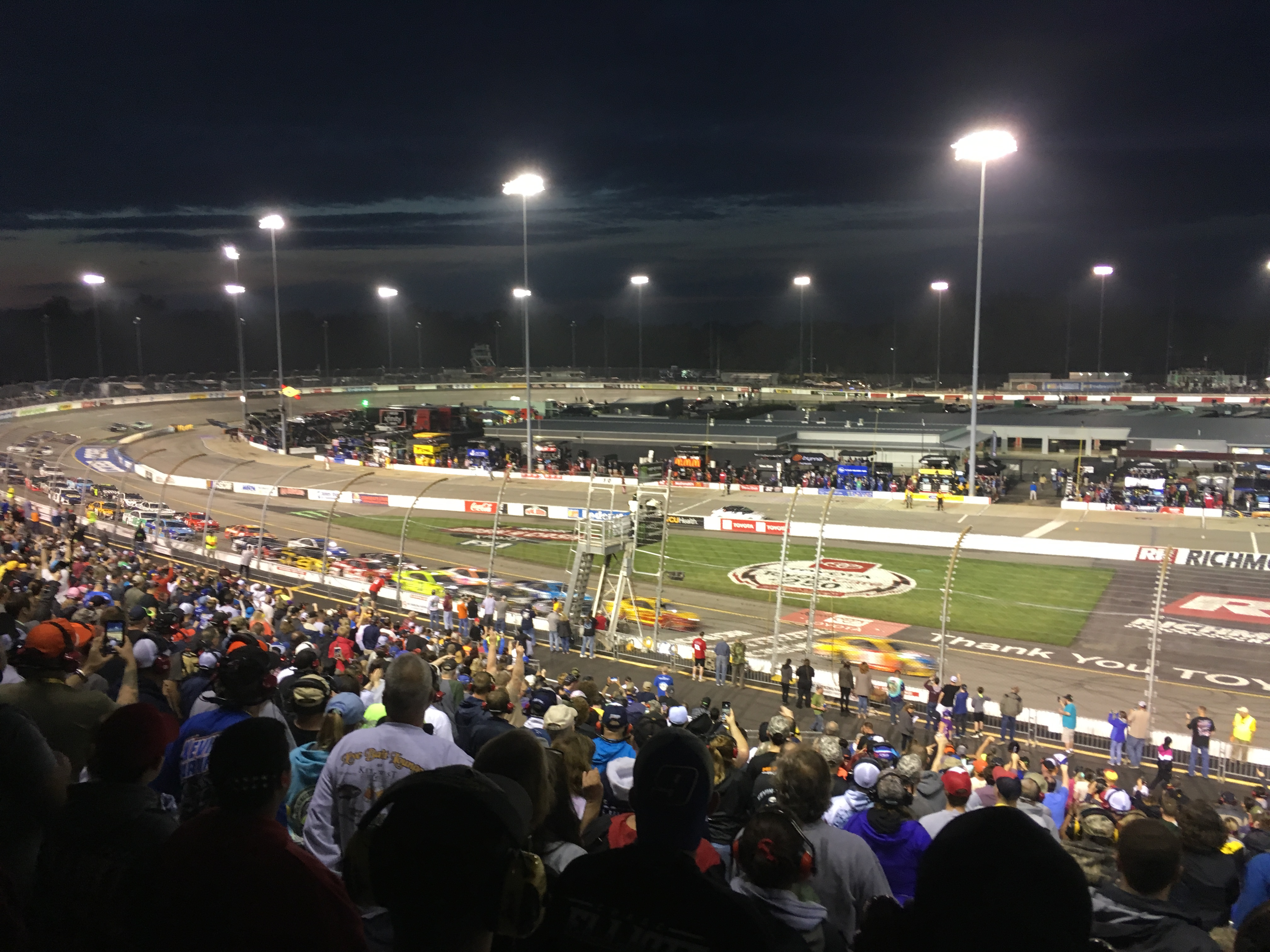 The 2019 Toyota Owners 400 at Richmond Raceway viewed from the frontstretch. Kyle Busch (#18) leads Joey Logano (#22) and the rest of the field following a restart.